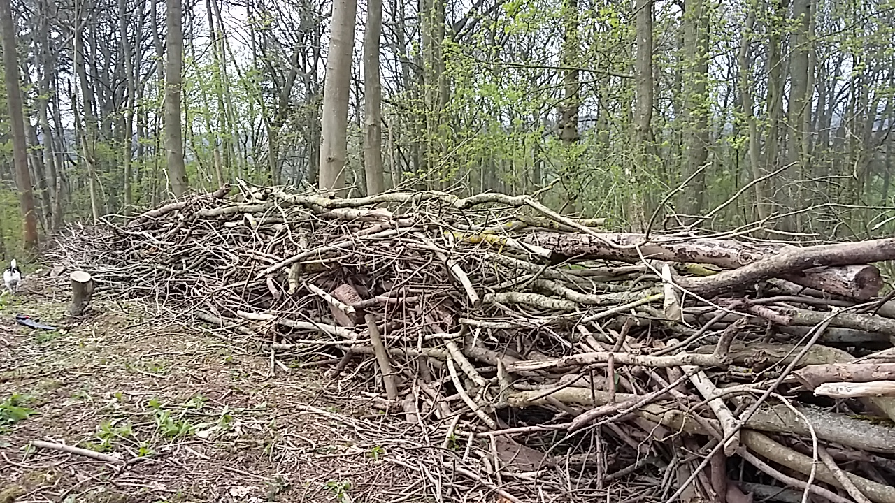 Coppice remnants have been piled in a long line to form a barrier as a wildlife shelter and corridor.